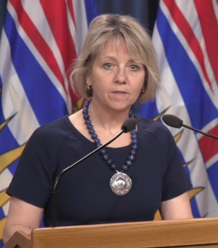 COVID-19 BC Update, March 26 Provincial Health Officer Dr. Bonnie Henry and Minister of Health Adrian Dix provide an update to the media on COVID-19 in BC. For more information on provincial support related to COVID-19 visit